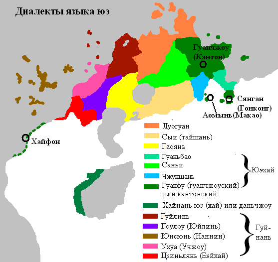 Map showing geographic distribution and extent of Yue (Cantonese) dialects.